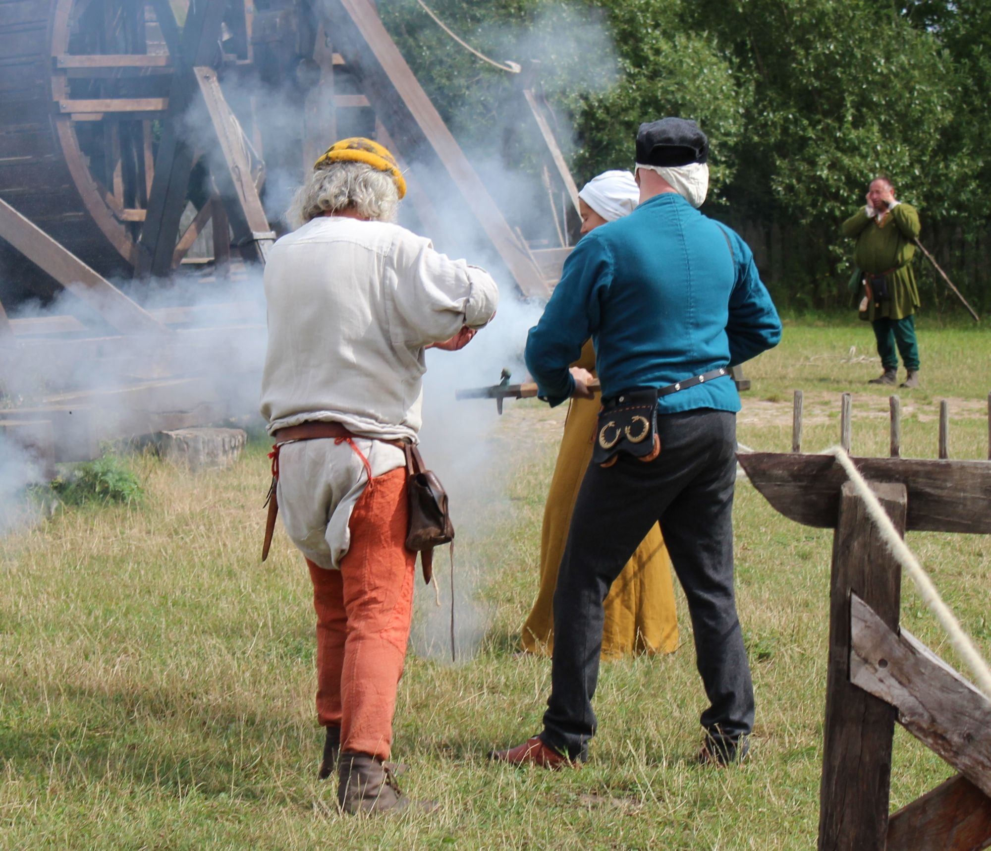 An early type of gun is fired at Middelaldercentret (Middle Ages Centret) in Denmark